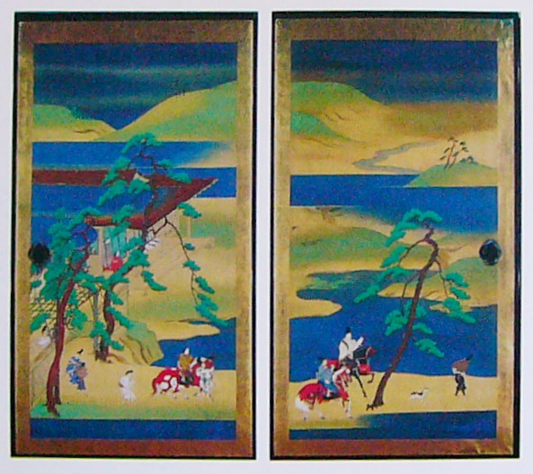 Falcory each panel 177x97cm color on paper of sliding door. by REIZEI TAMECHIKA (1823 - 1864), ACE1855, Kyoto, Kyoto Imperial Palace, stored by Imperial Agecy Japan